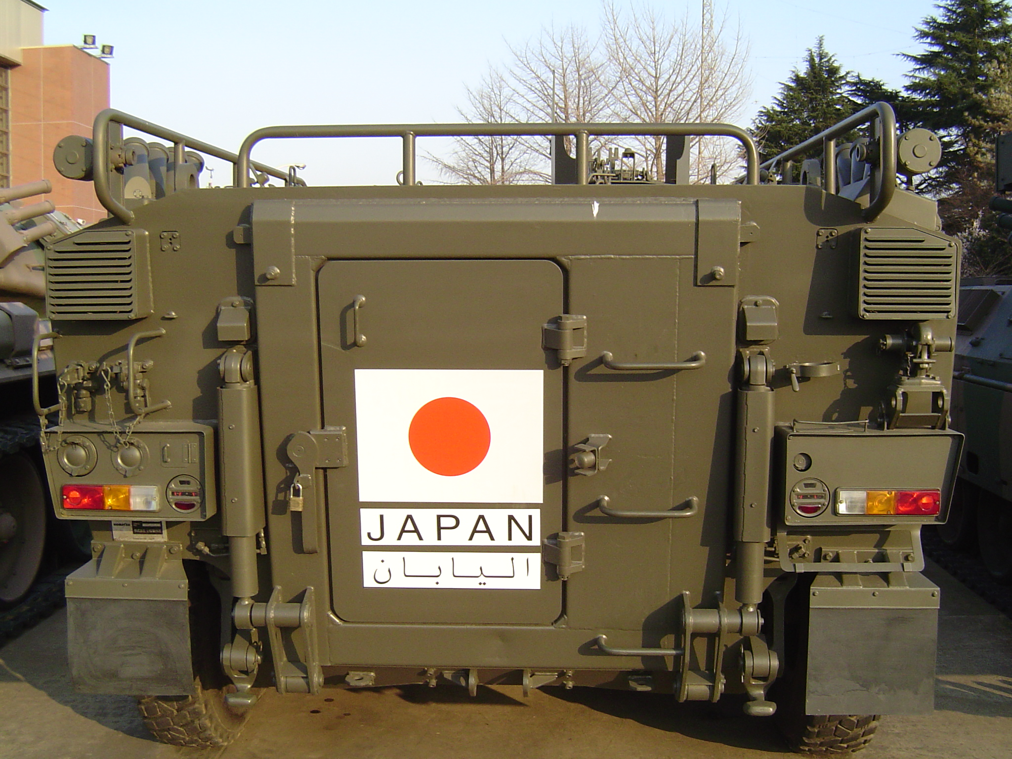 APC type 96 of JGSDF at JGSDF PI center. ja:96式装輪装甲車